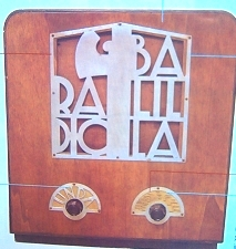 The Radiobalilla radio by Unda Radio SA (Como, Italy), 1939, with the prominent Italian fascist symbol.